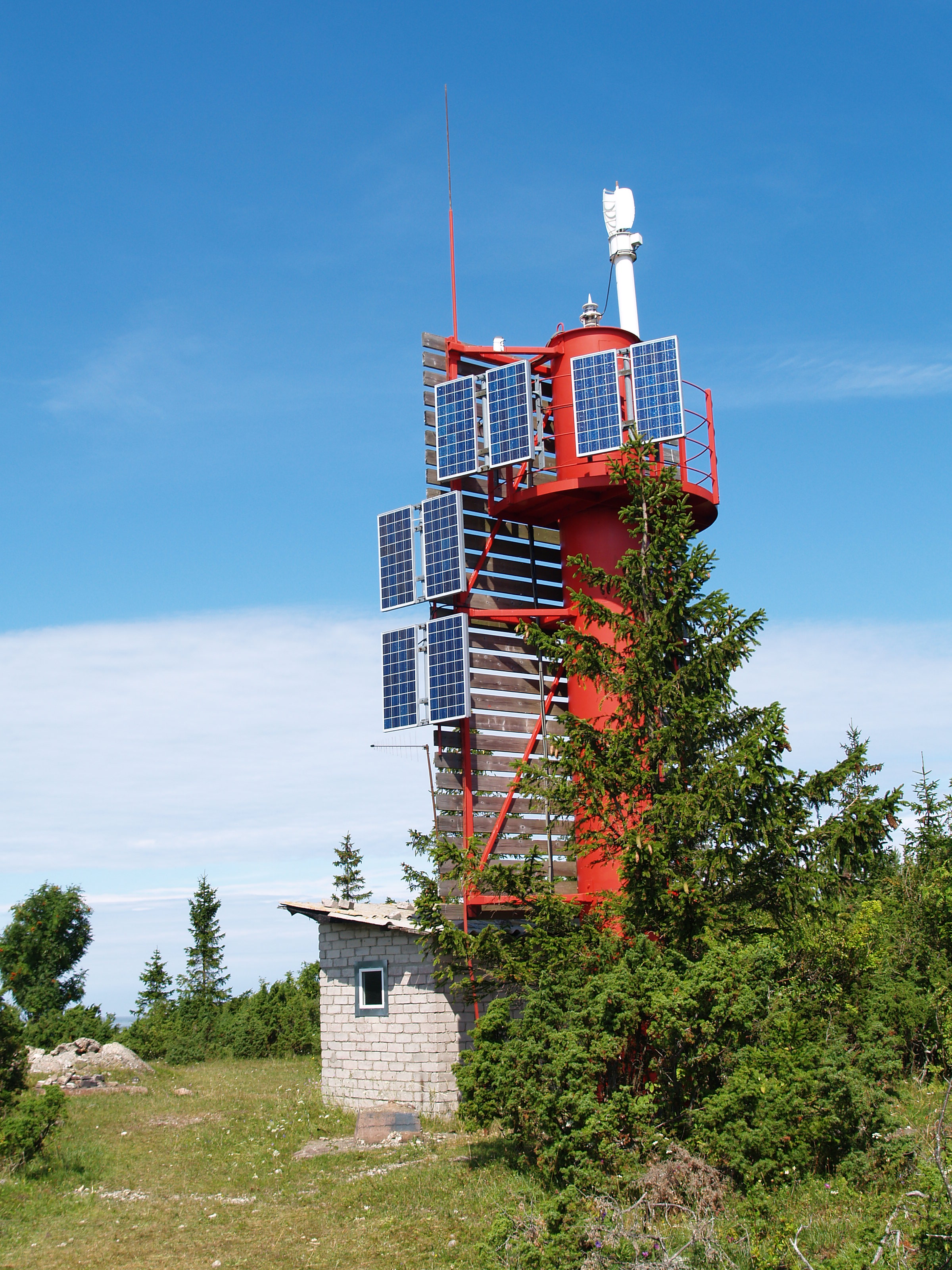 Kessu lower light beacon.